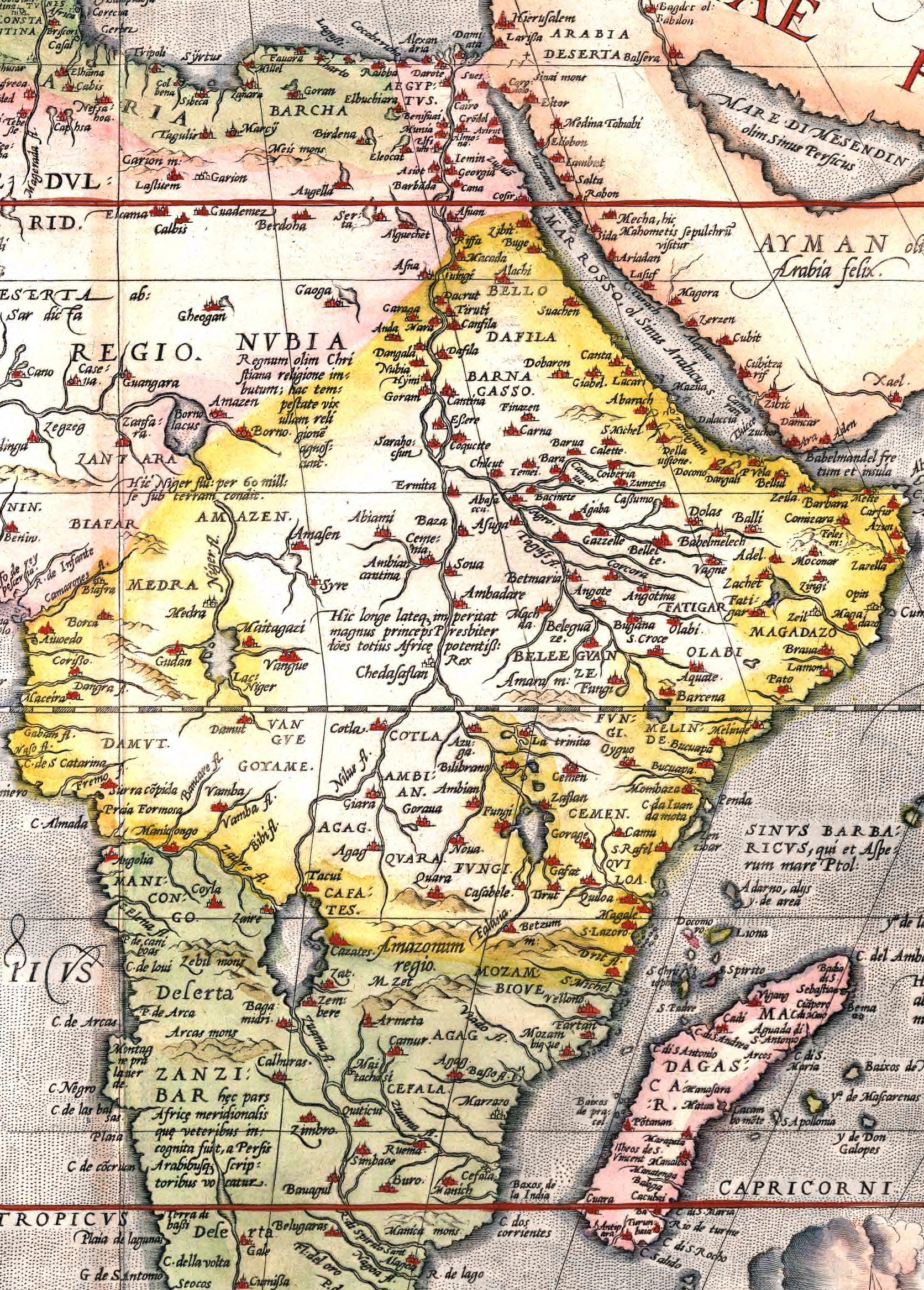 Cut of Abraham Ortelius' Africae Tabula Nova: Nile, Zuama (Zambesi), Limpopo and Zaire (Congo) flow out of a common central lake.